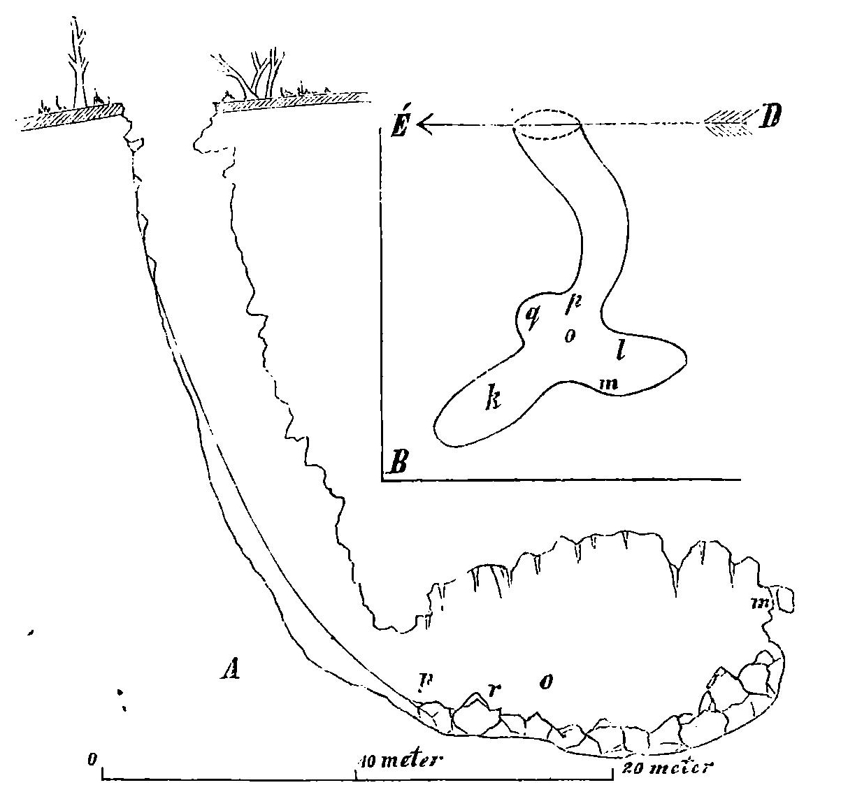 Map of Háromlyukú Pothole in Földtani Közlöny 1875.